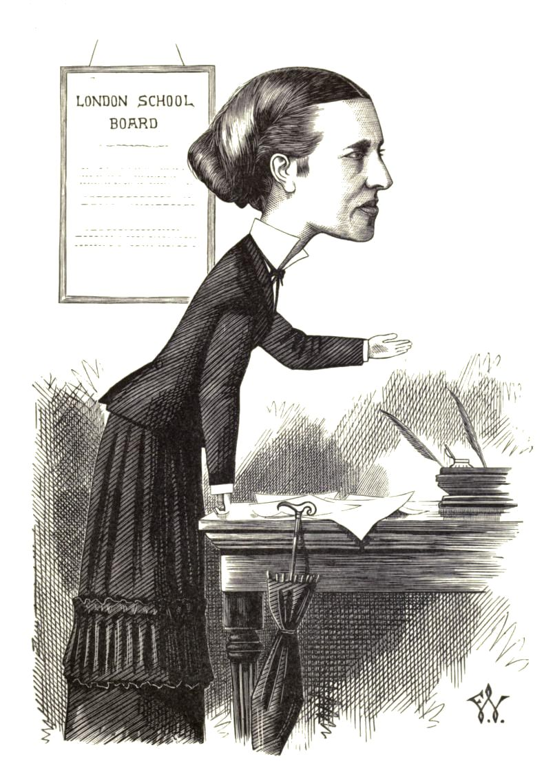 Elizabeth Garrett Anderson, M.D.from Cartoon portraits and biographical sketches of men of the day